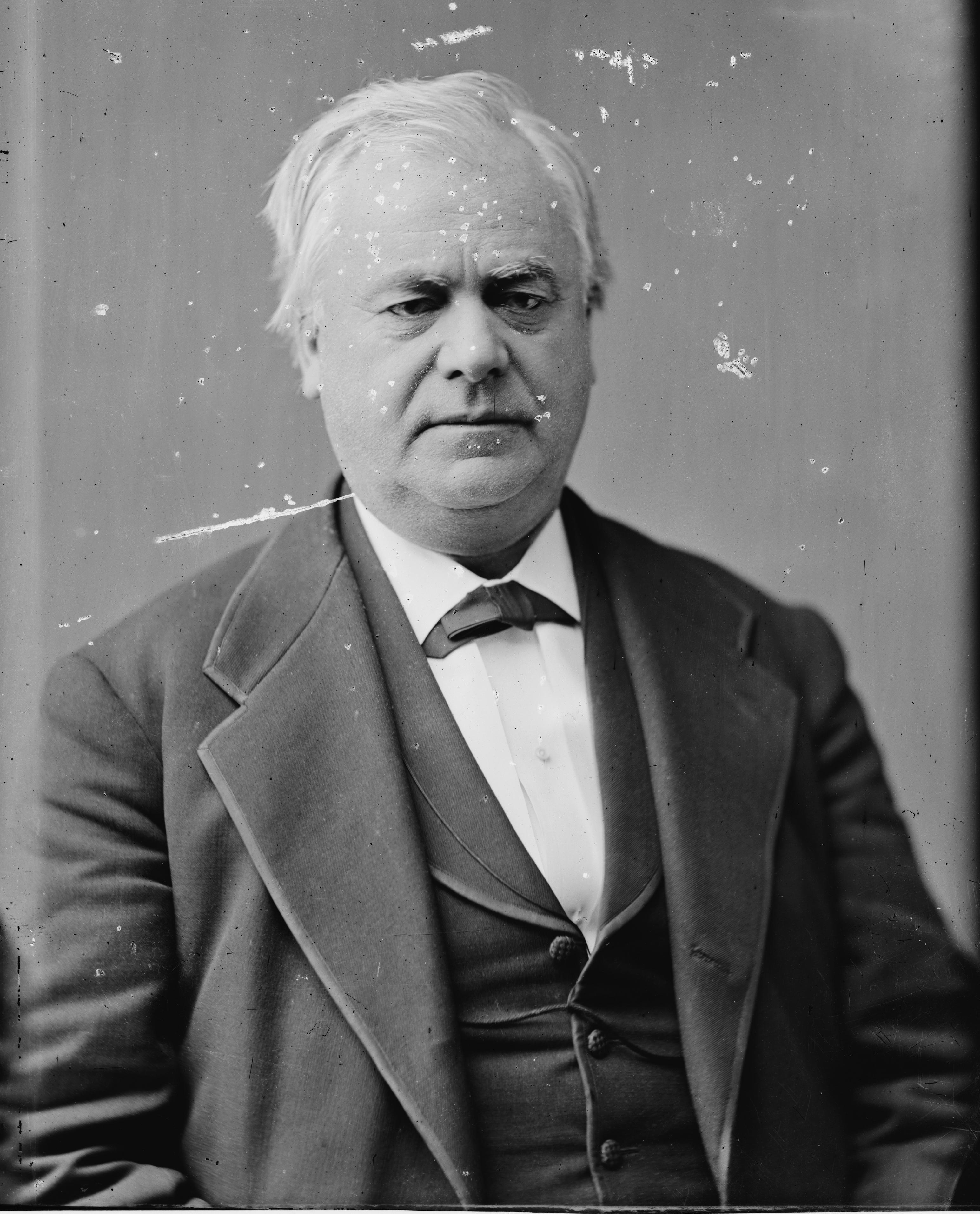 Richard James Oglesby. Library of Congress description: "Oglesby, Hon. Richard J. of Ill. Col of 8th Ill. Inf. USA, 1862".